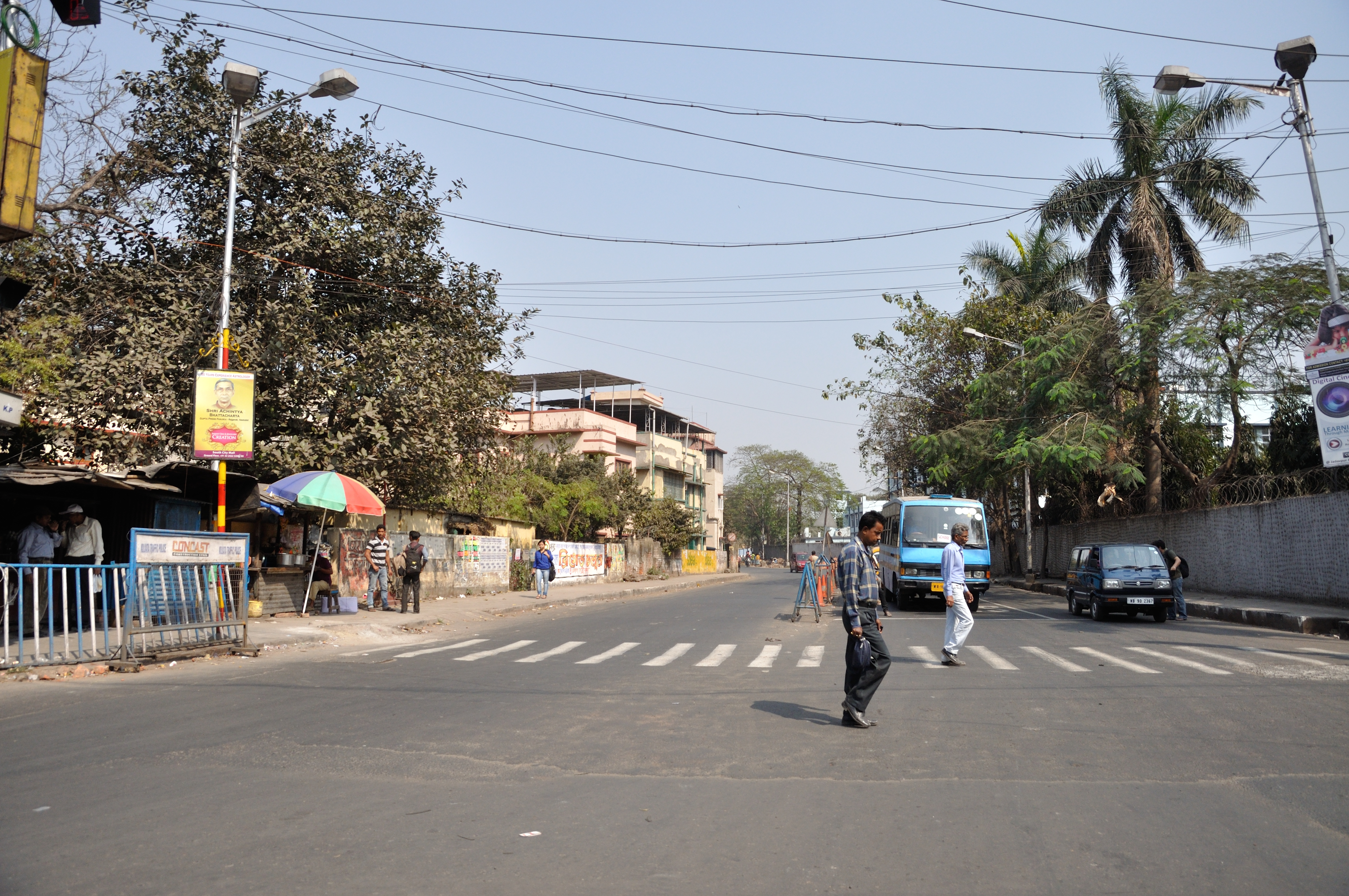 Photographed in Kolkata.